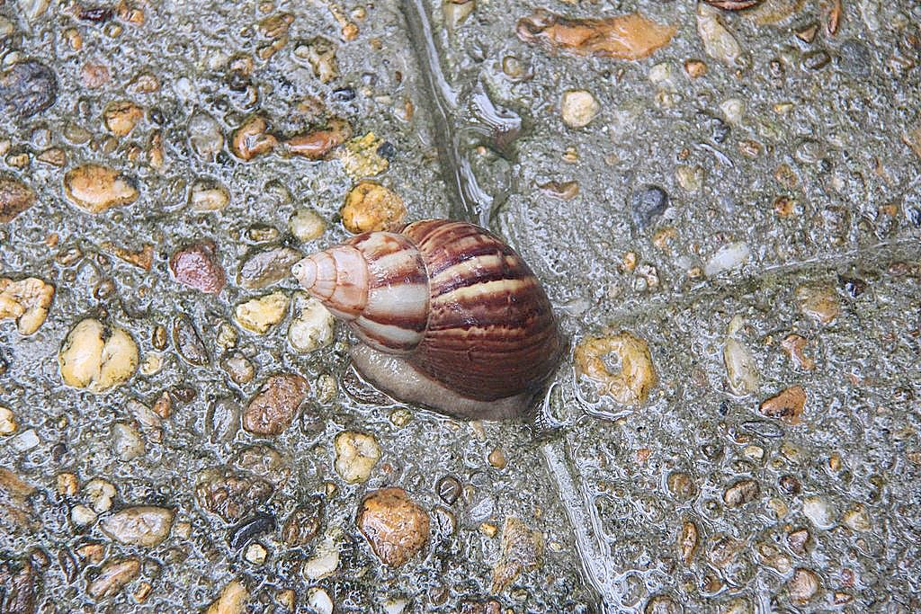 Snail in Vietnam